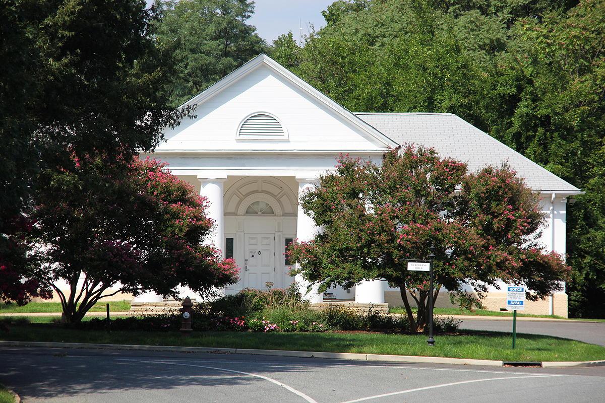 Looking north at the Old Administration Building at Arlington National Cemetery in Arlington, Virginia, in the United States. This was originally the site of Arlington House's stables, built between 1803 and 1818 and a small-scale replica of the main mansion. The stables burned to the ground in 1904 but were rebuilt in 1907. In 1932, the stables were converted into an administration building. A new administration building was constructed in 1975, at which time the stables-cum-office building was renamed the Old Administration Building.